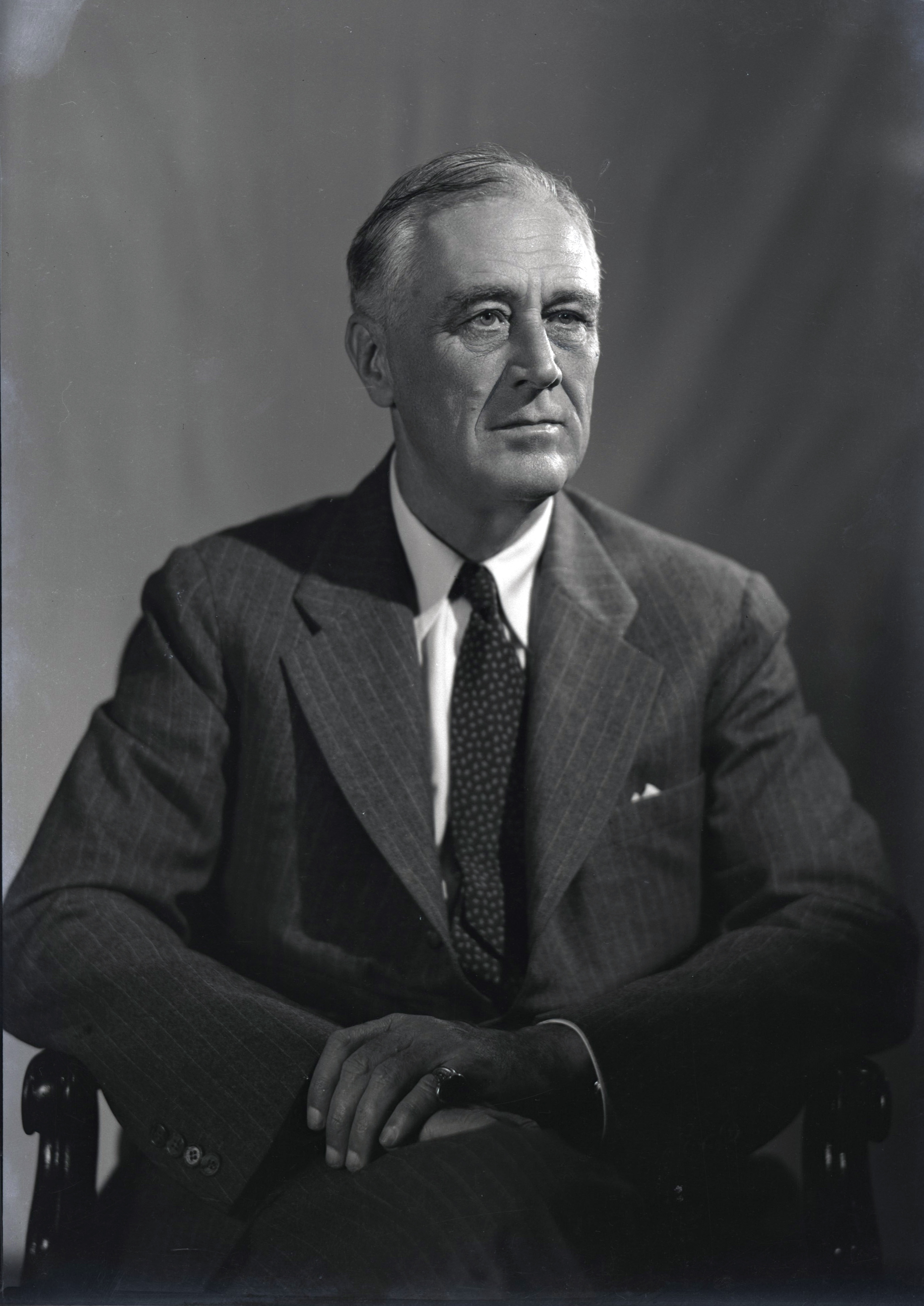 Original black & white transparency of FDR taken at 1944 Official Campaign Portrait session by Leon A. Perskie, Hyde Park, New York, August 21, 1944. Gift of Beatrice Perskie Foxman and Dr. Stanley B. Foxman. August 21, 1944